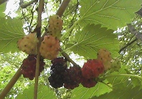 Photo of mulberries in various stages of ripeness. Taken in Mingo Creek County Park, Washington County, Pennsylvania, United States.